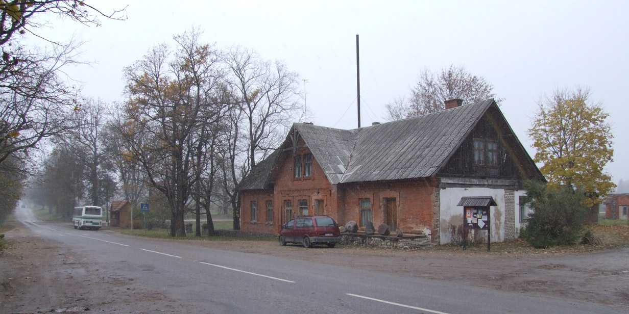 Road P33 in Ineši